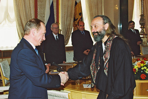 THE GRAND KREMLIN PALACE, MOSCOW. President Vladimir Putin meeting with notables of the Russian and world theatre on the occasion of the 3rd Moscow Theatre Olympics. Mr Putin with Anatoly Vasilyev, the artistic director and stage producer of the School of Dramatic Art stage company.